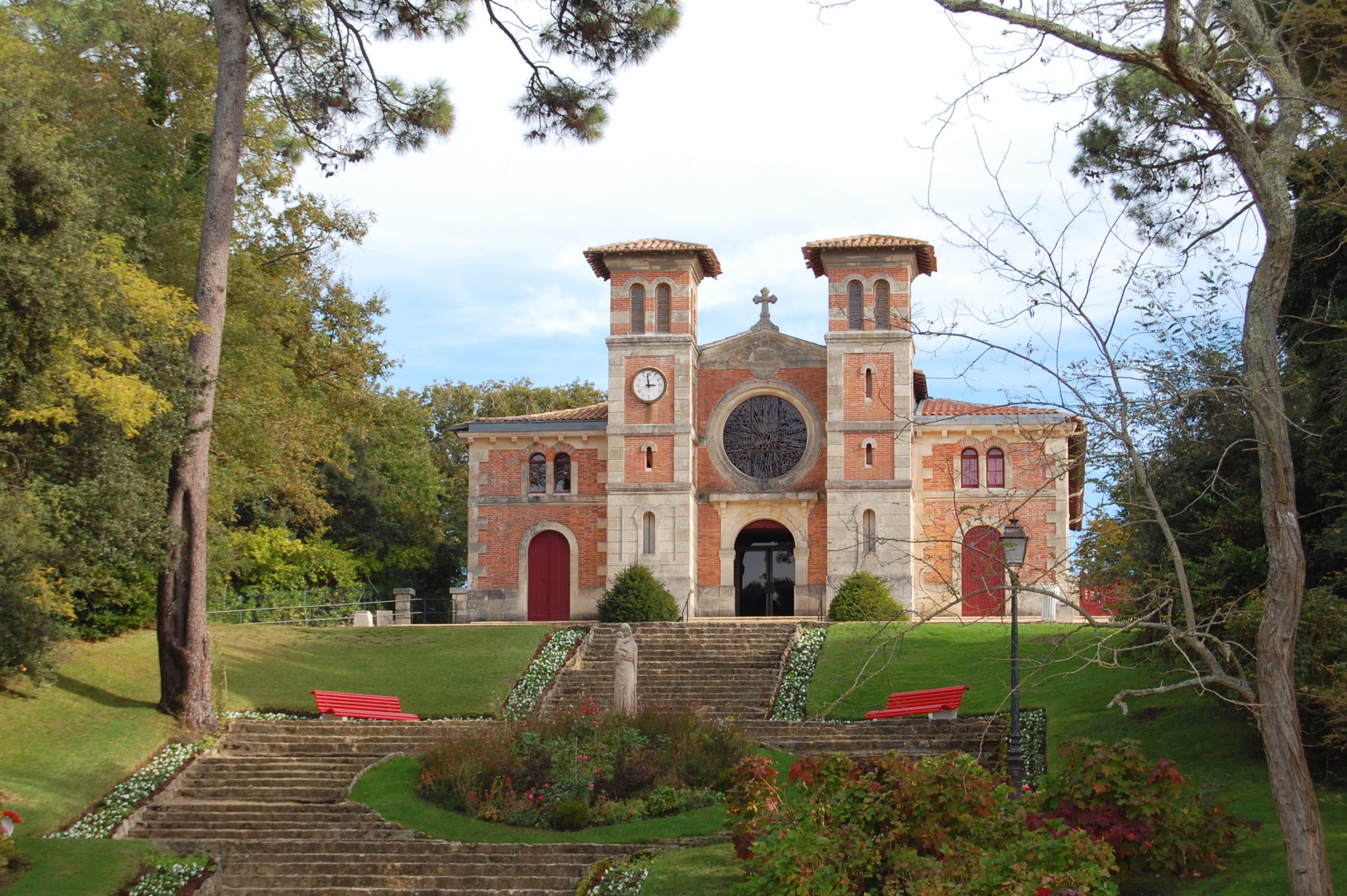 Notre_Dame_des_Passes, Moulleau district, Arcachon, France